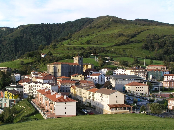 Aia, Gipuzkoa Provicne, Spain.